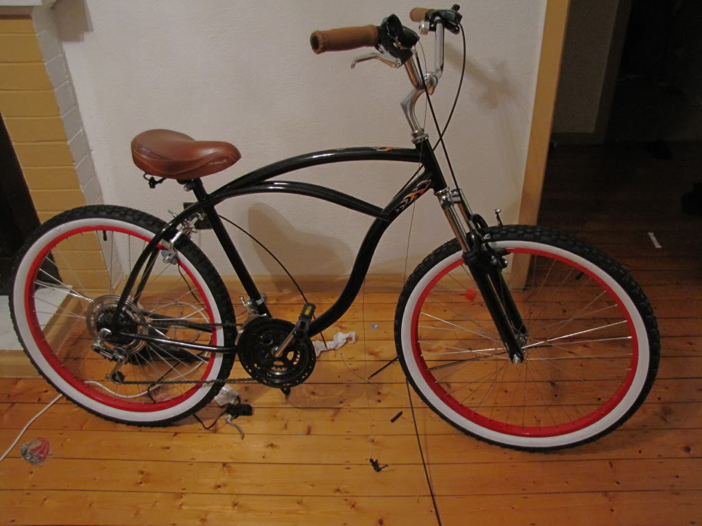 A cruiser bicycle with a cantilever frame